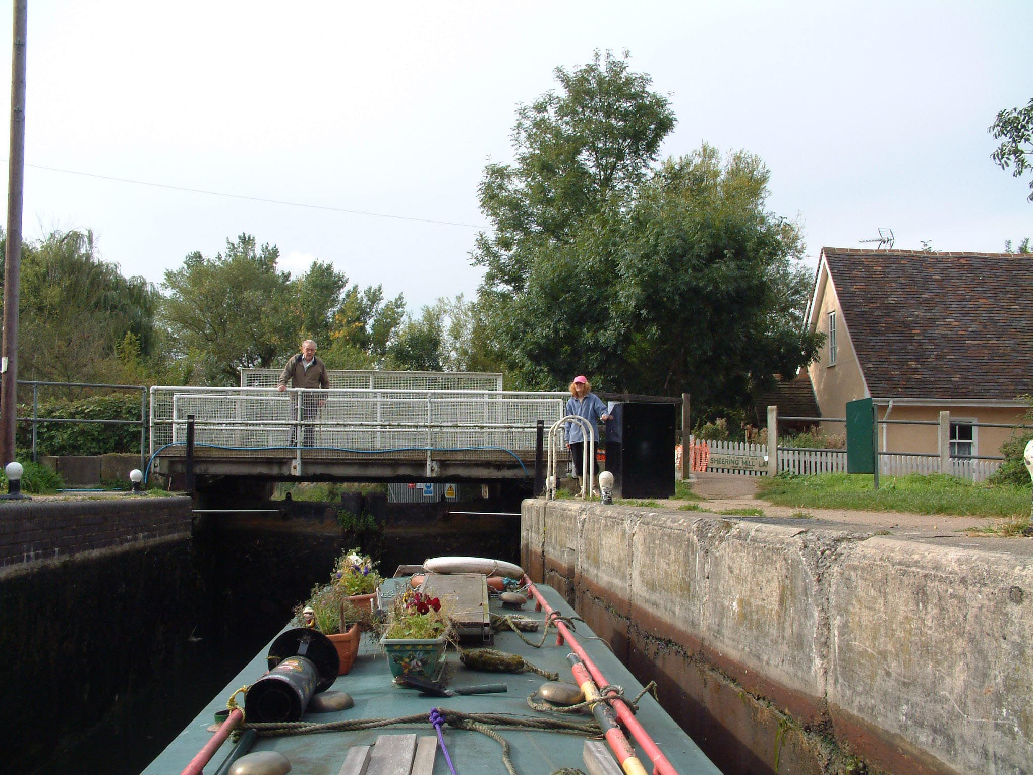 Descending in Sheering Mill Lock on the Stort Navigation